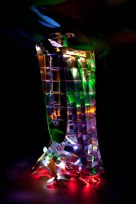 Sculpture "Schicht im Schacht (Turm für Duisburg)" by Olaf Metzel. Exhibition Museum Küppersmühle Duisburg